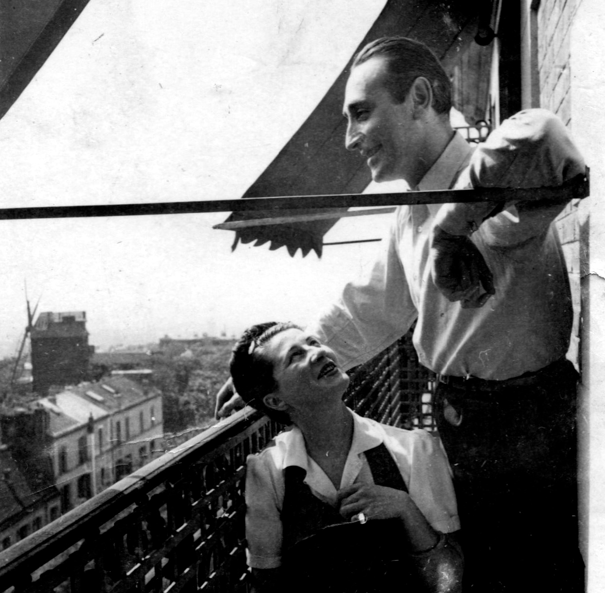 Overlooking the Moulin de la Galette in Montmartre. Paris 1946.